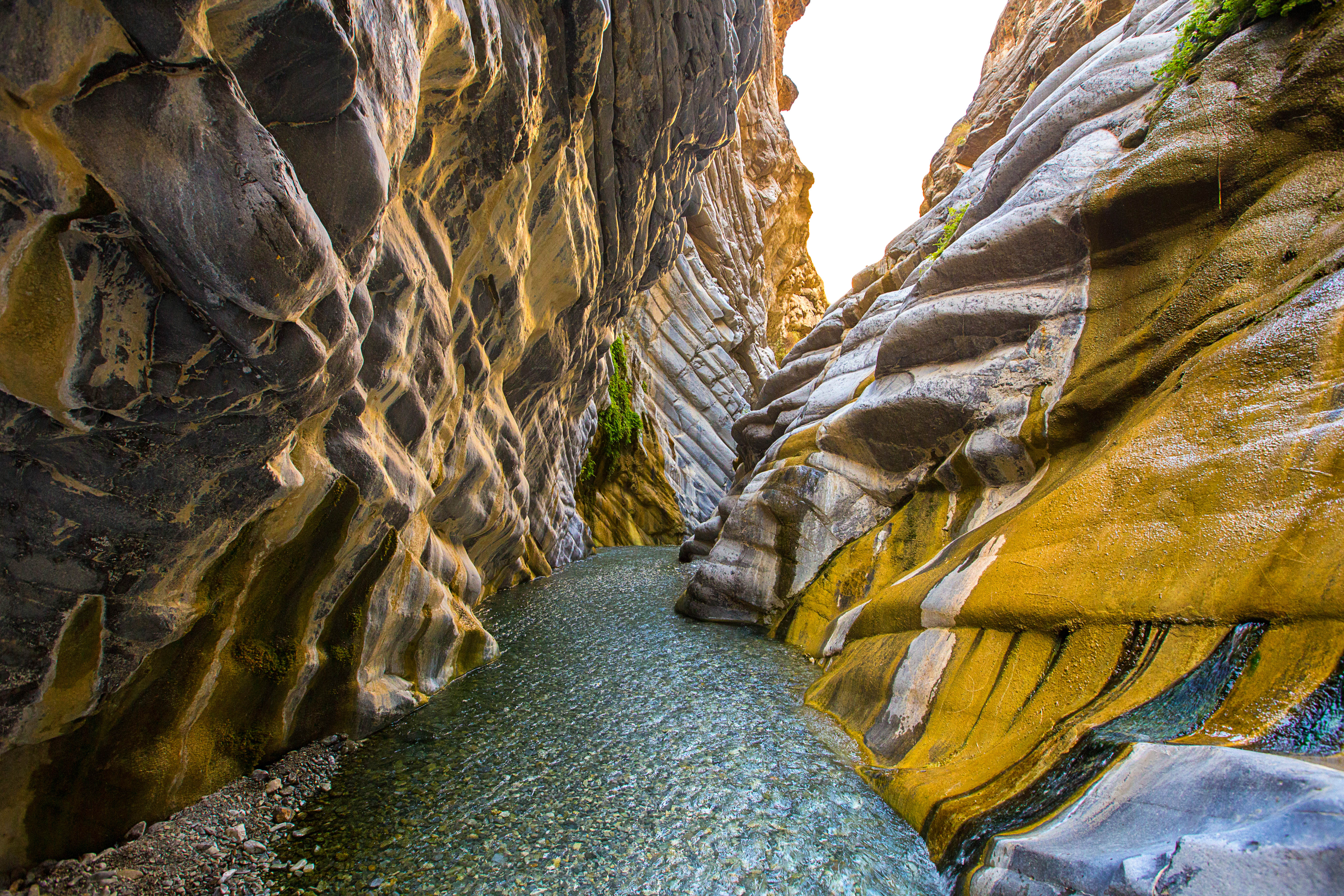 Moola Chotuk Hidden paradise in Balochistan More than 80 km away from Khuzdar there is a beautiful village called Moola, It is a Tehsil of District Khuzdar. It is famous due to historical place as well as its geographical location. In this village many waterfalls are found, Chotok is one of the biggest waterfalls of Sub Tehsil Moola as well as Baluchistan. This waterfall exist between two hills, the peaks of the hills are interacted with each other that is why waterfall just looks like an umbrella. Its water is hot during winter season and cold during summer season, people feel pleasant and find themselves in the imaginative world.